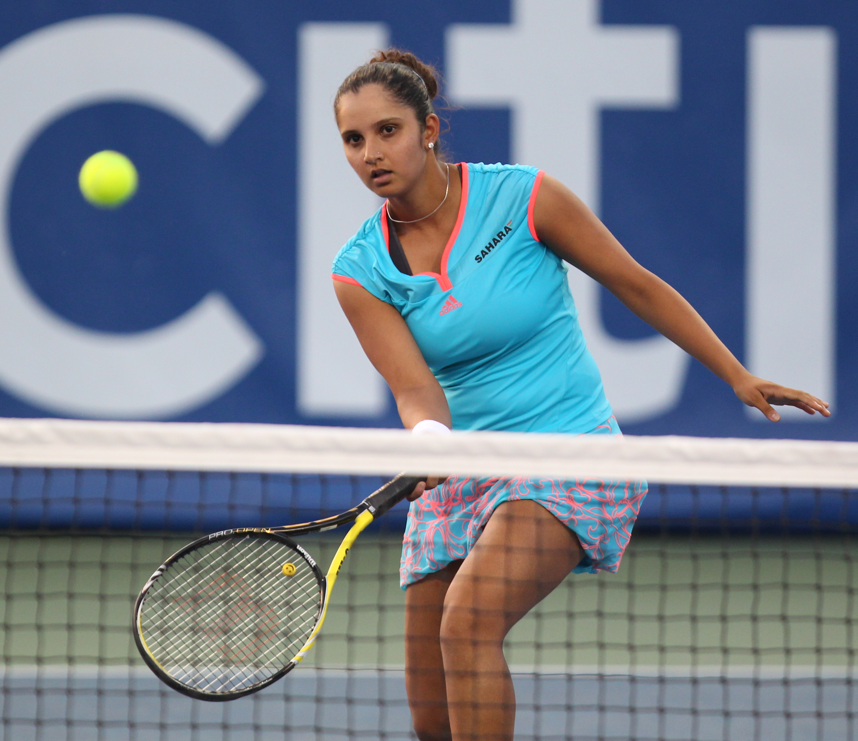 Indian tennis player Sania Mirza at the Citi Open July 2011